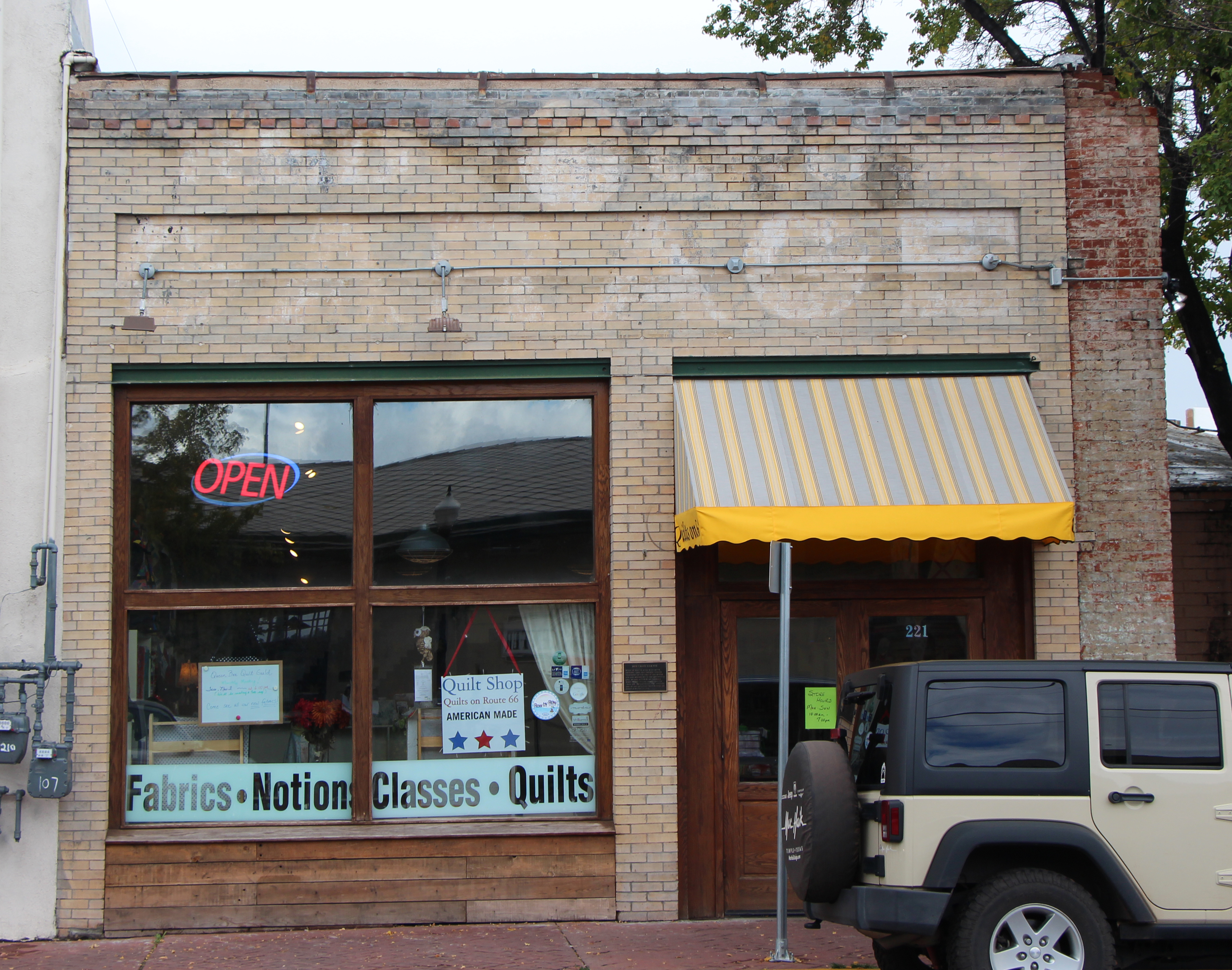 Red Cross Garage, 221 W. Railroad Ave., Williams, Az